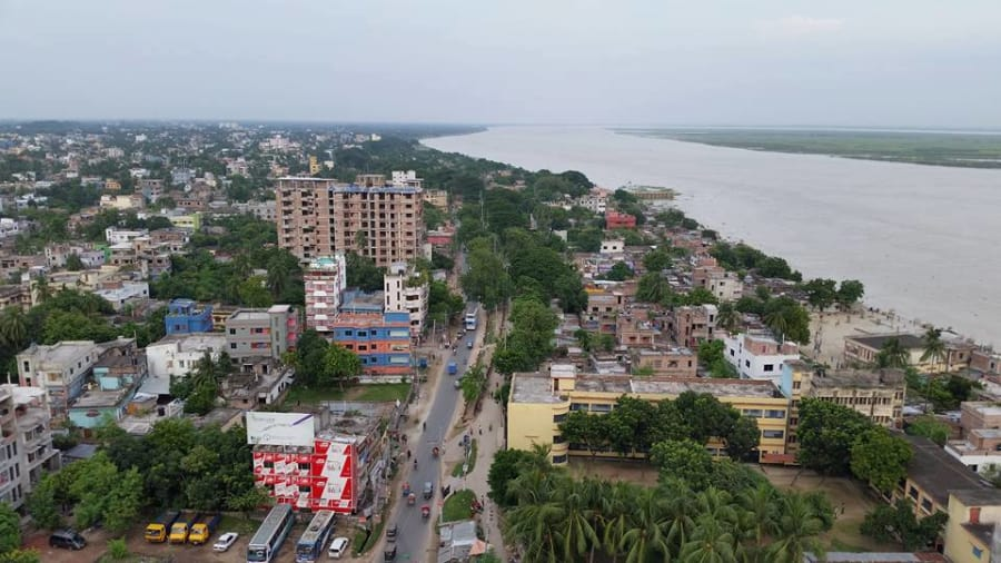 Rajshahi city by the bank of the river Padma